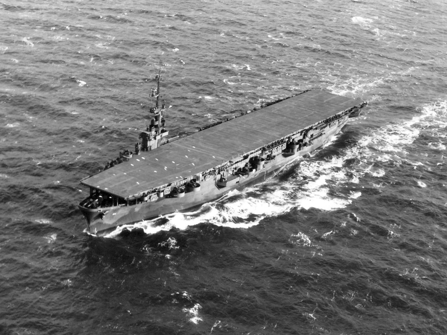 The U.S. Navy escort carrier USS Vella Gulf (CVE-111) underway in August 1945.